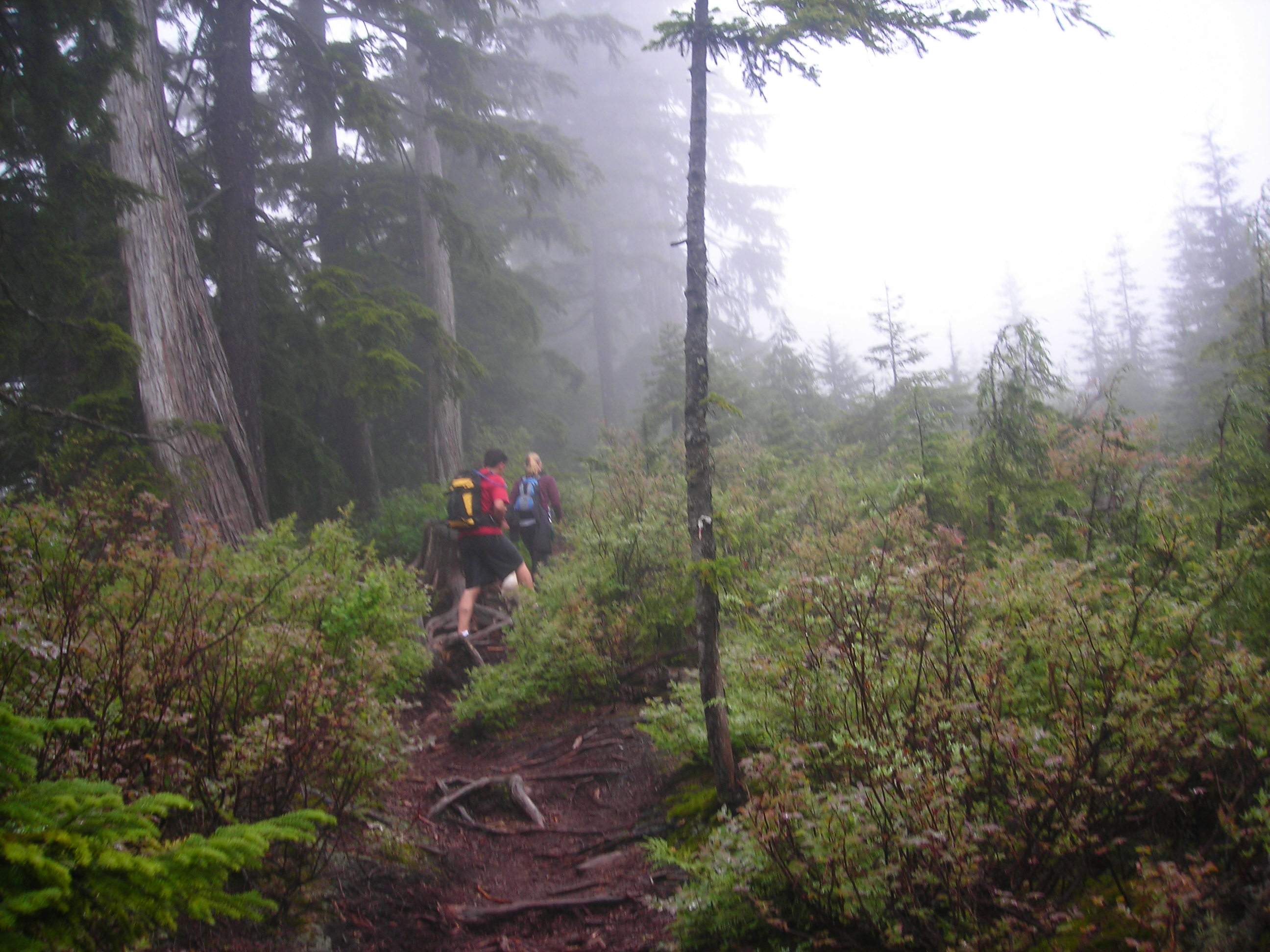 One of the surrounding trails around Buntzen Lake in Coquitlam, British Columbia.